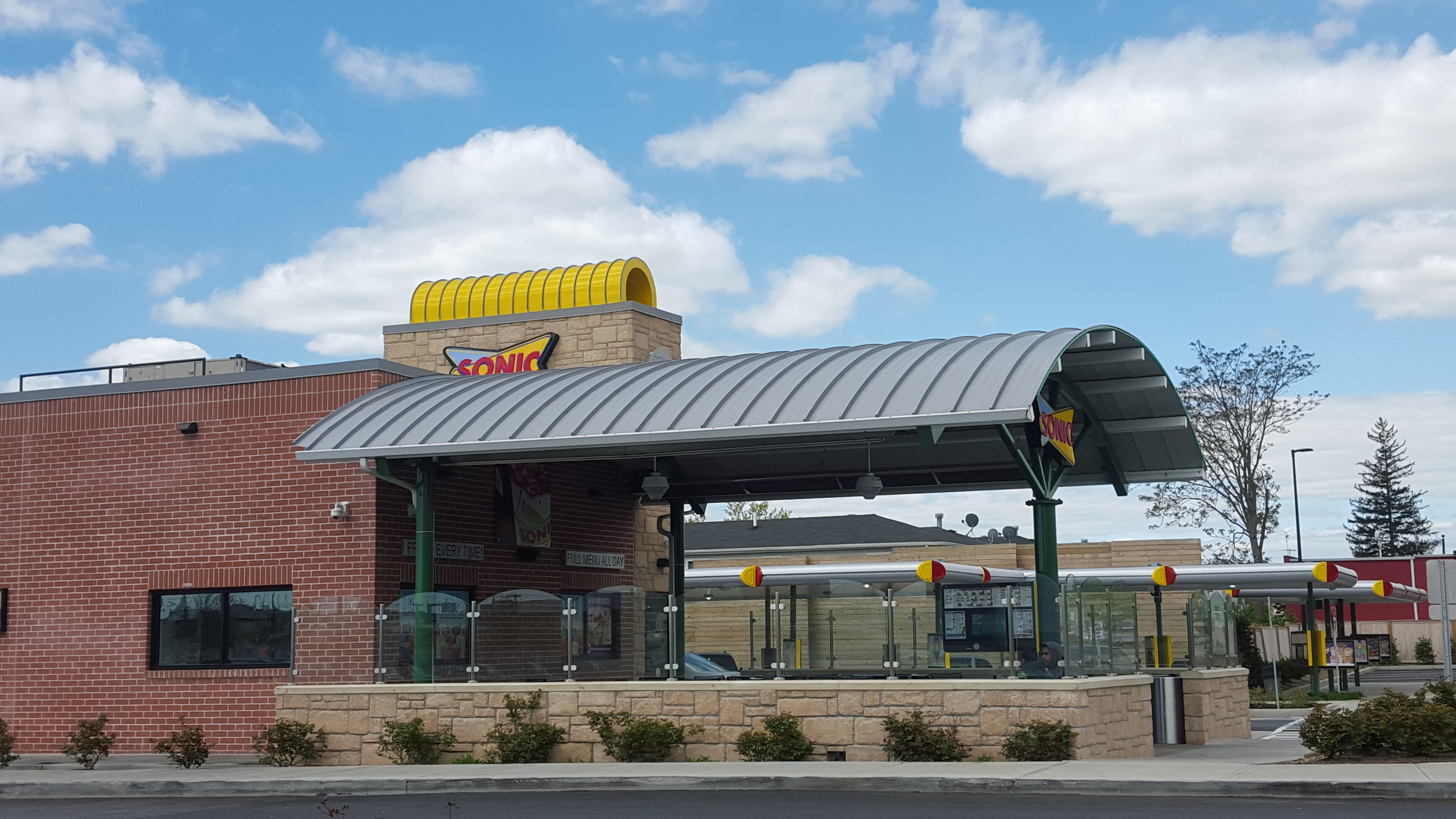 The Green Acres Mall in Valley Stream, NY is a 20,000sf mall. Together with the Green Acres Commons, a 366,000sf complex it ranks 13th in largest mall sizes in the US.